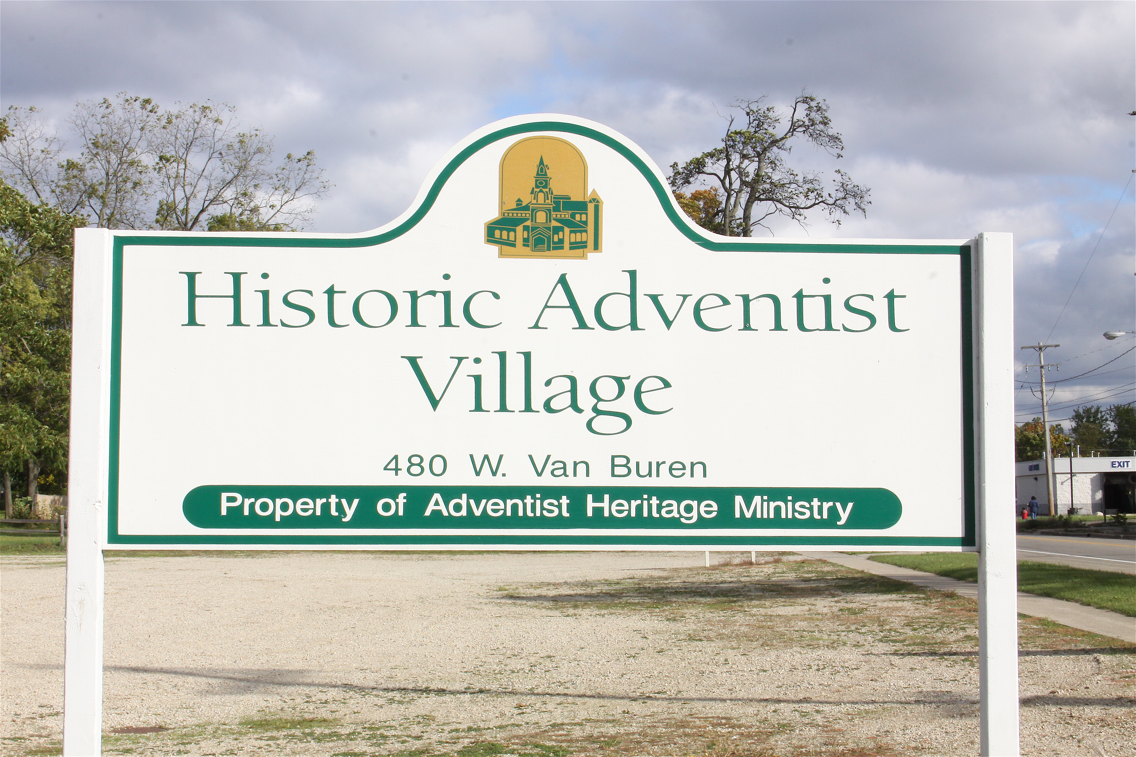 Photo courtesy of: Mike Bramble